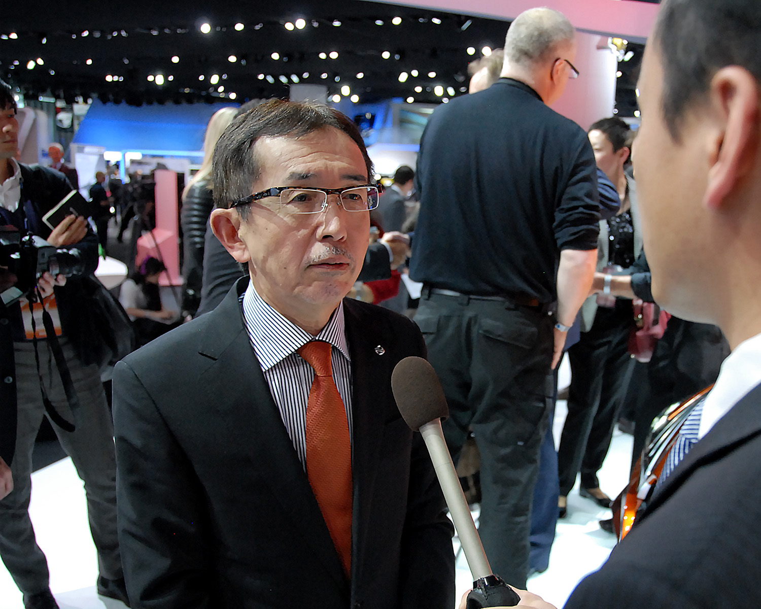 Shiro Nakamura, being interviewed at auto show